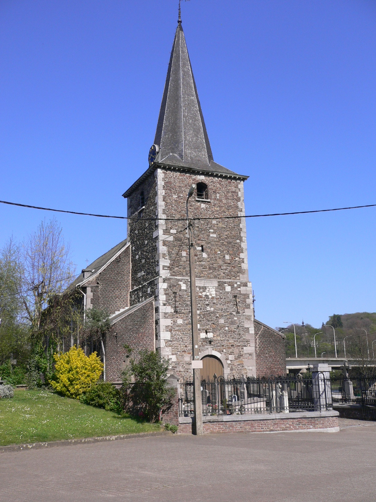 The church of Hermalle-sous-Argenteau, Belgium.